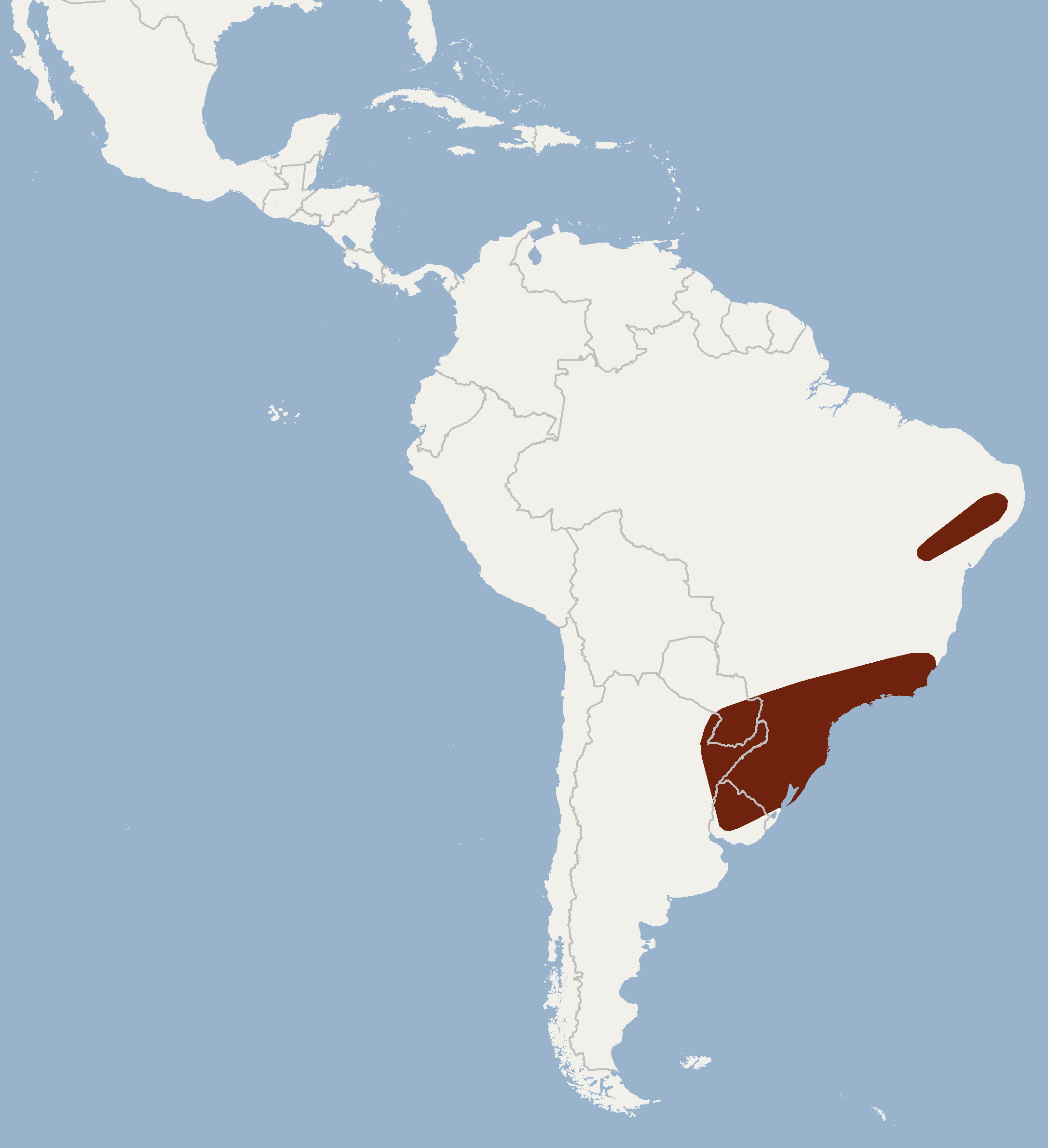 According to Weber & Al., 2010